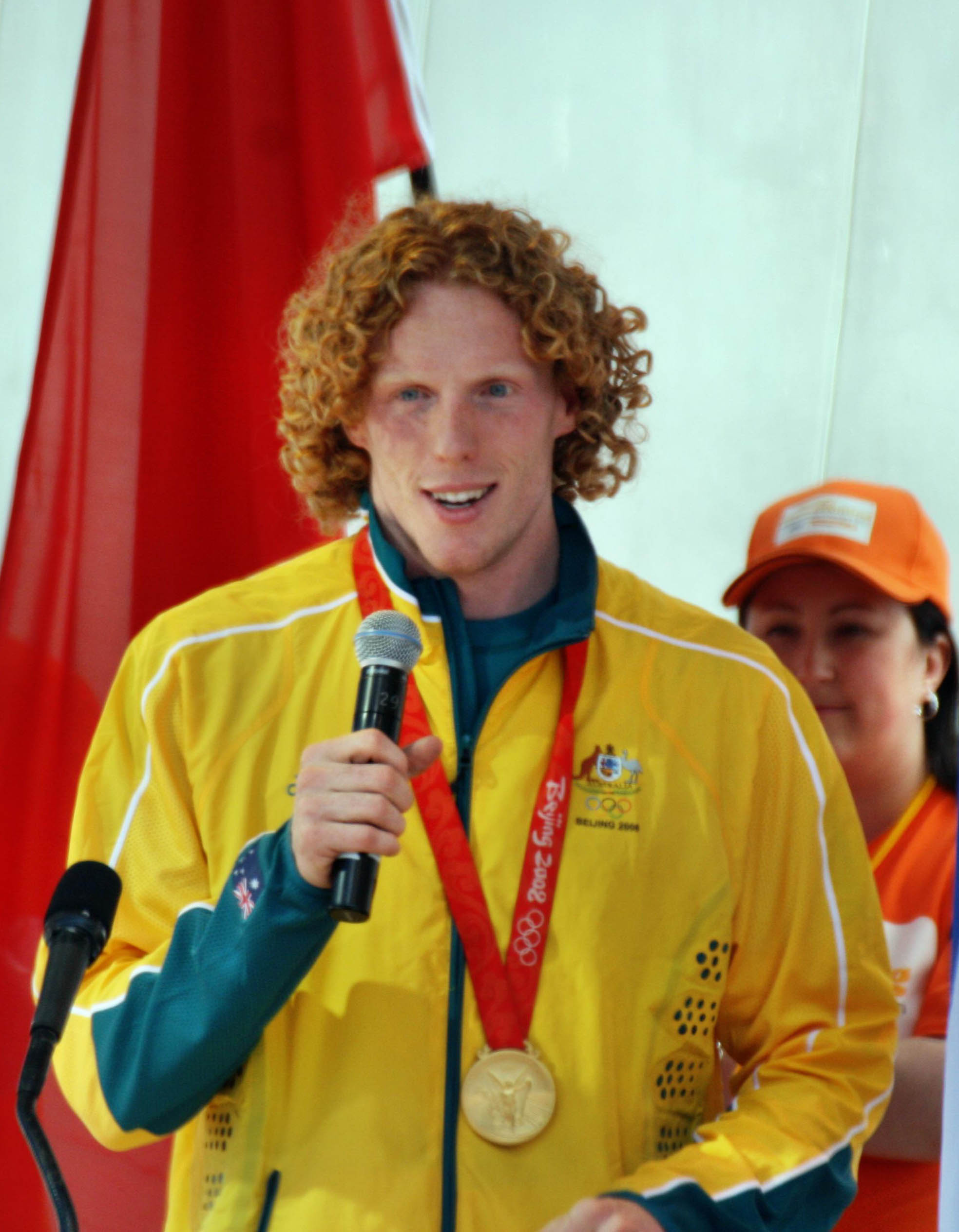 Australian gold medal pole vaulter Steve Hooker at the Melbourne homecoming parade for 2008 Olympic Team.